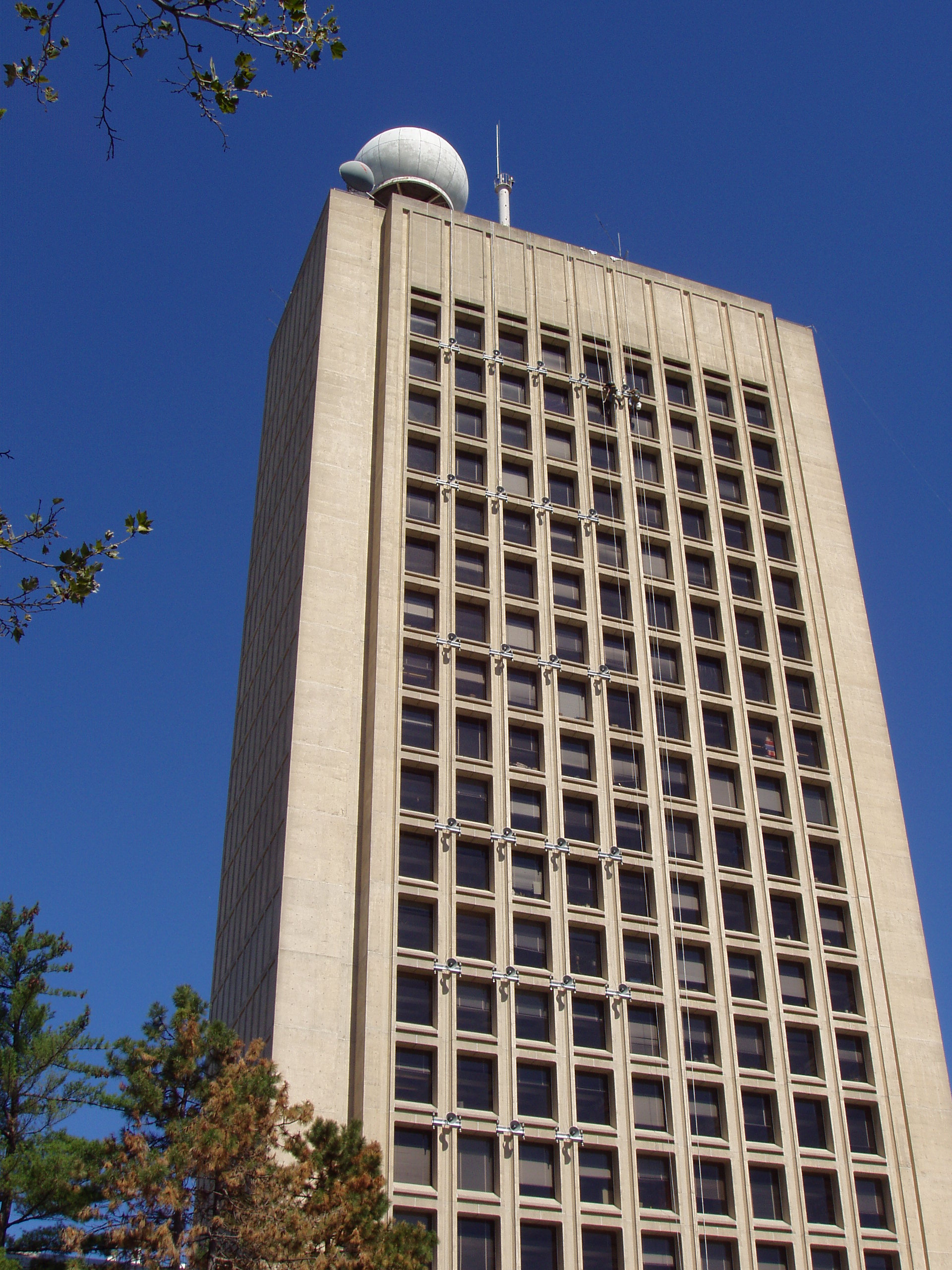 Green Building, Massachusetts Institute of Technology, Cambridge, Massachusetts. I. M. Pei, architect. Photograph taken by me, September 2005.